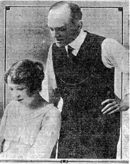 Photograph of Helen MacKellar and Grant Mitchell in 1917 Broadway play "A Tailor-Made Man", which appeared in the August 26, 1917 issue of The New York Times